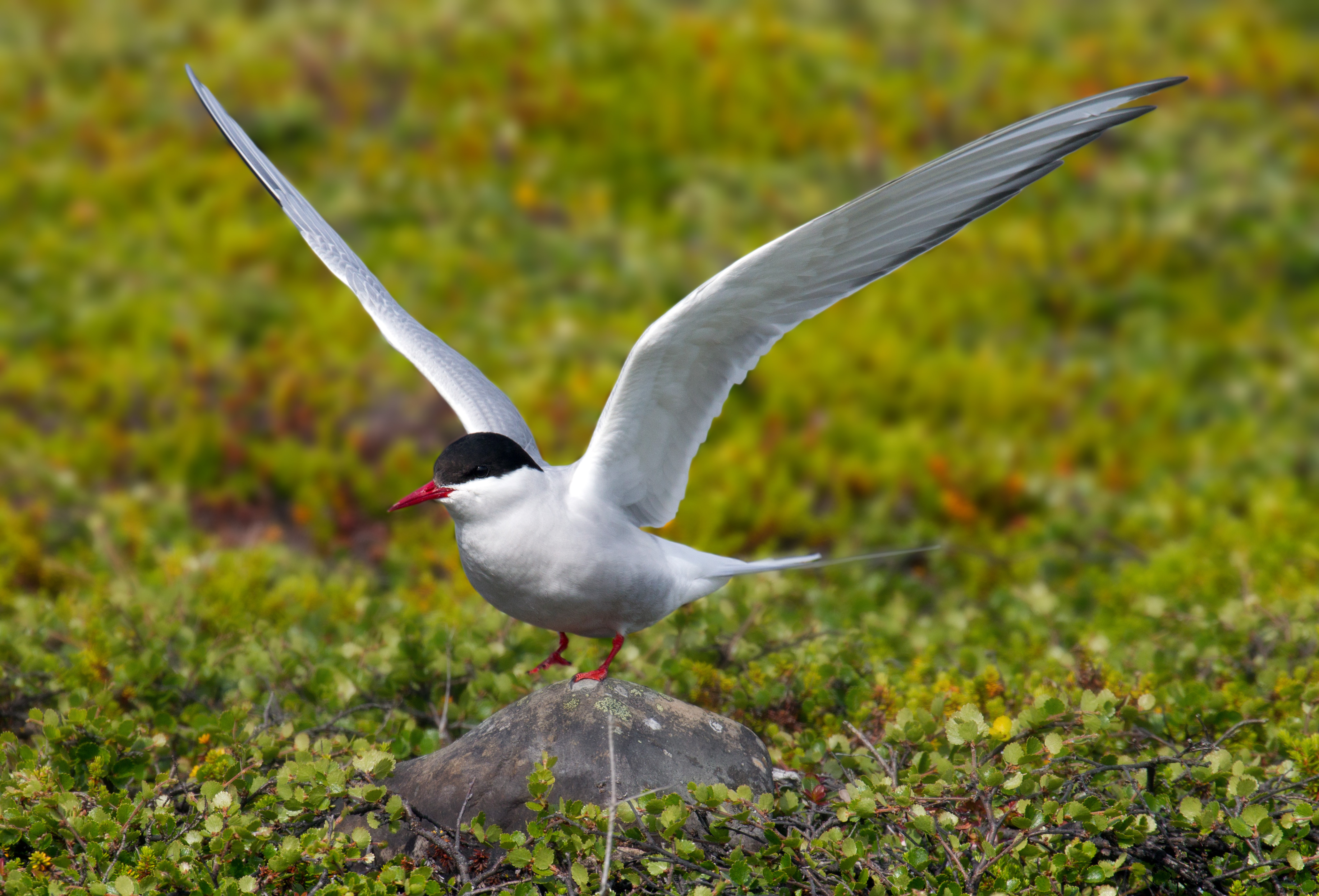 Arctic Tern